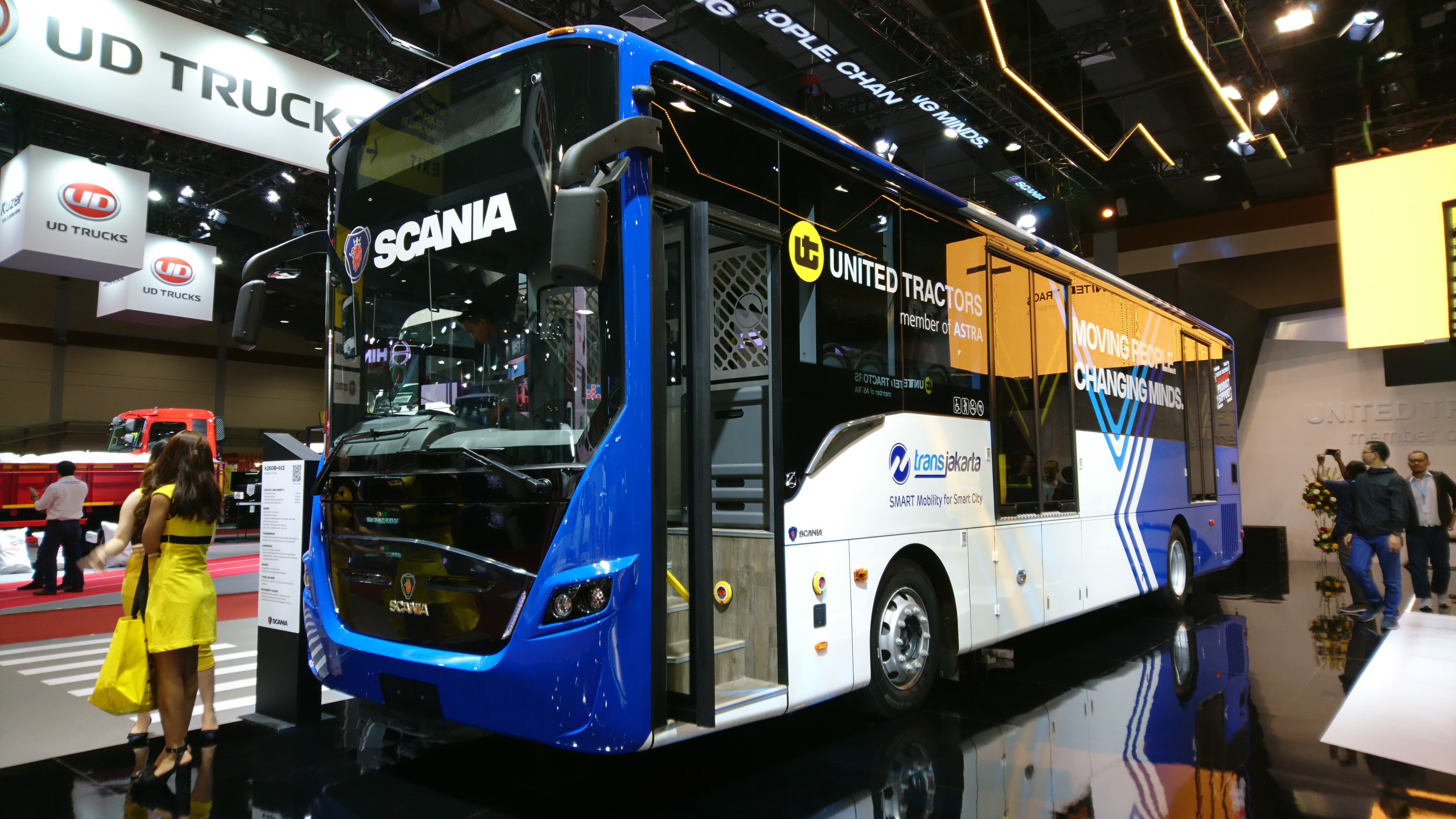 Scania K250IB bodied Laksana Cityline3 launched in GIICOMVEC 2020.